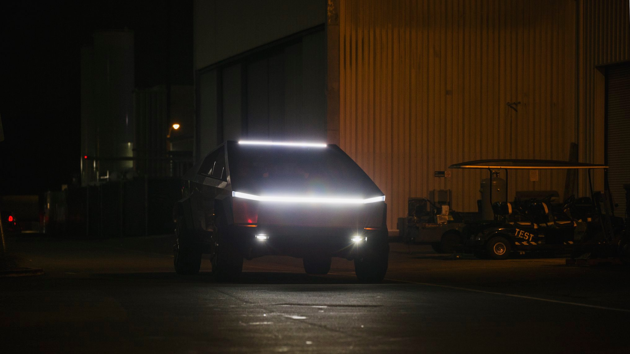 Tesla Cybertruck arriving back in dark; during test ride session after unveiling event. Lightbar visible in headlight mode.